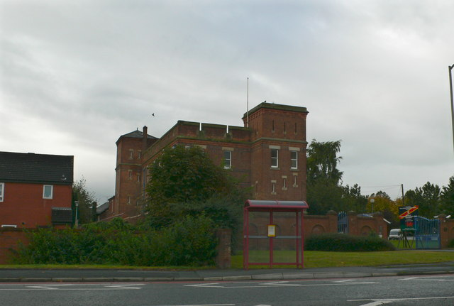 Hightown Barracks, Wrexham Hightown Barracks in Wrexham has been regarded as the home base of the Royal Welch Fusiliers for decades.They have now joined forces with the Royal Regiment of Wales - each becoming battalions in The Royal Welsh.